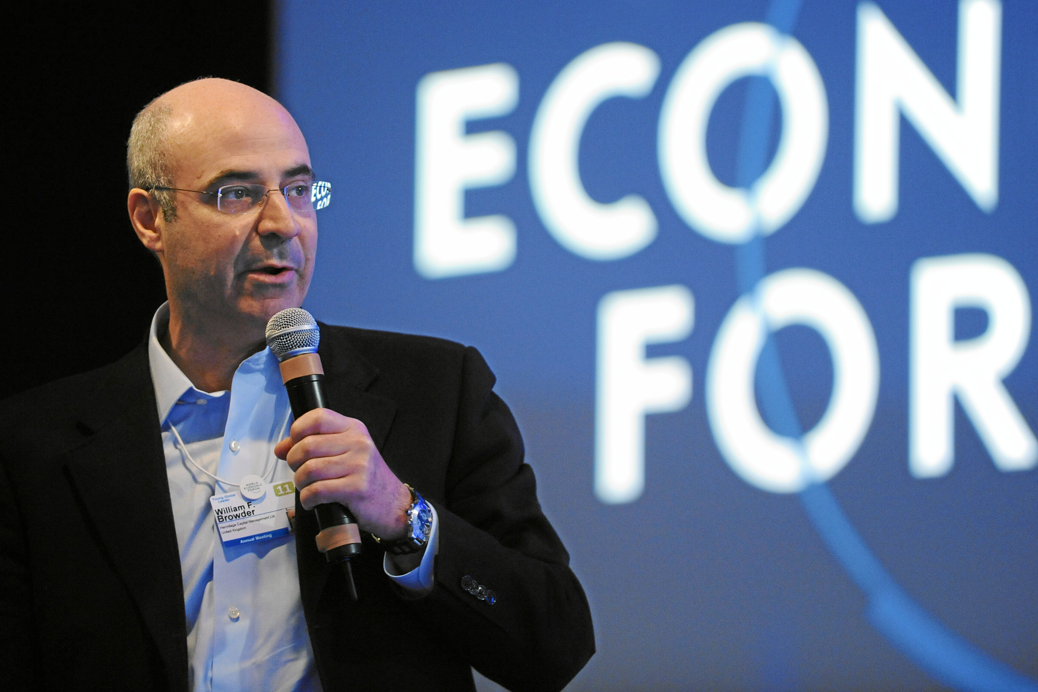 DAVOS/SWITZERLAND, 27JAN11 - William F. Browder, Chief Executive Officer Hermitage Capital Management, asks questions during the session 'Russia's Next Steps to Modernization' at the Annual Meeting 2011 of the World Economic Forum in Davos, Switzerland, January 27, 2011. Copyright by World Economic Forum by Michael Wuertenberg